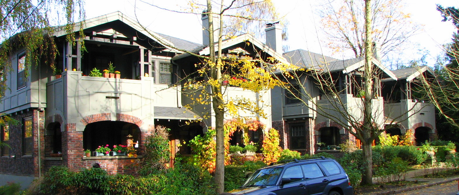 The historic Elm Street Apartments (built 1916), located at 1825a–1837 Southwest Elm Street in Portland, Oregon, United States, is listed on the US National Register of Historic Places.